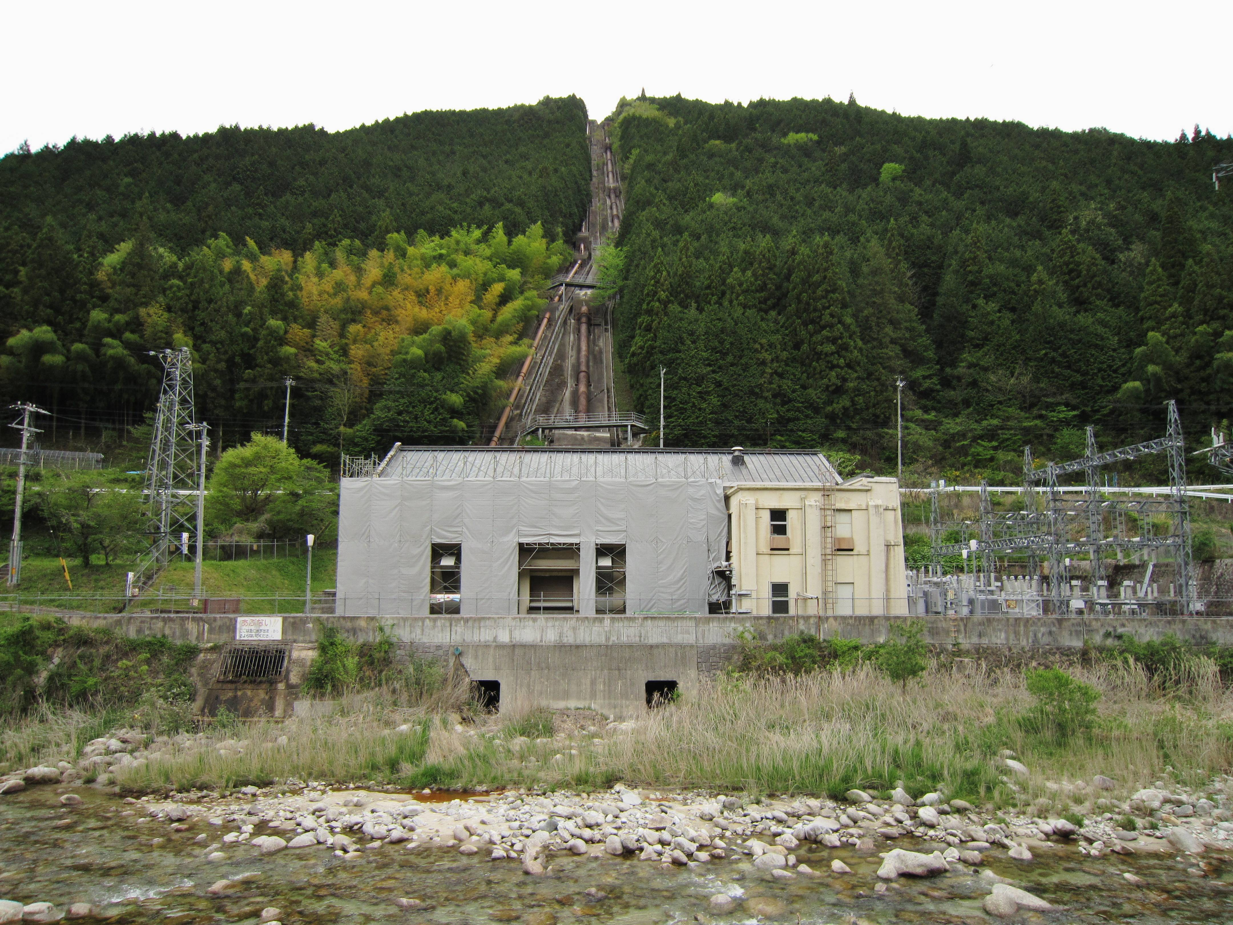 Kamimura power station.